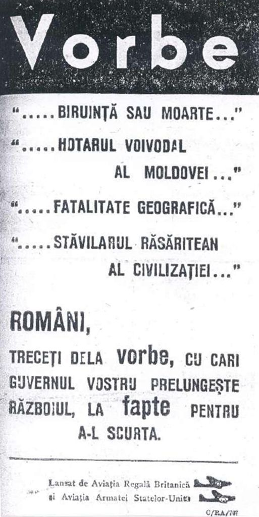 Leaflet dropped by the Allies asking the Romanian people to to end Romania's alliance with Nazi Germany in order to shorten the war WORDS "...victory or death..." "...voivodal border of Moldavia..." "...geographical destiny..." "...Eastern dam of civilization..." Romanians go from words, with which your government is extending the war, to action to shorten it Launched by the British Royal Air Force and the US Air Force.